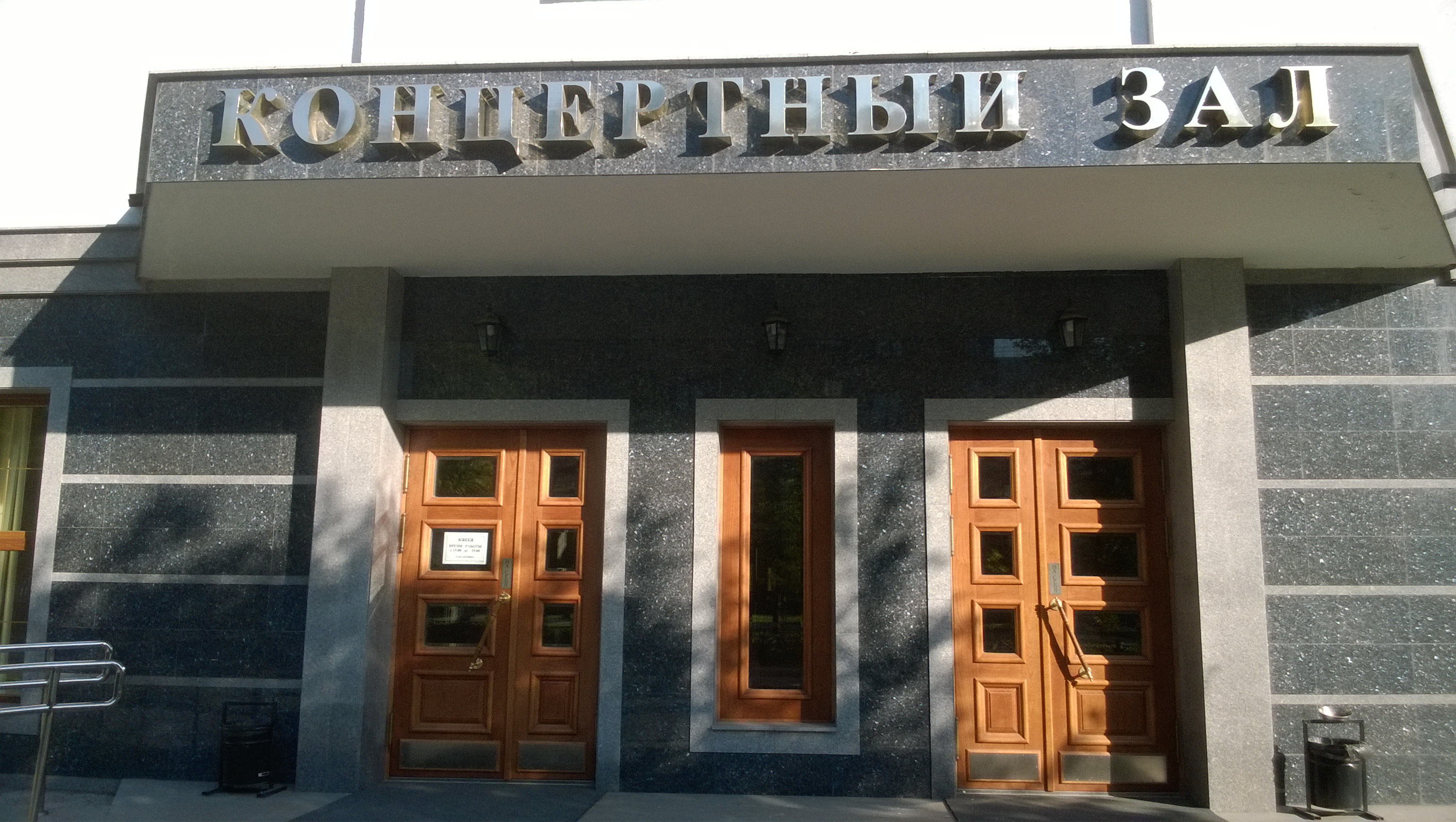 Concert hall in Novosibirsk.